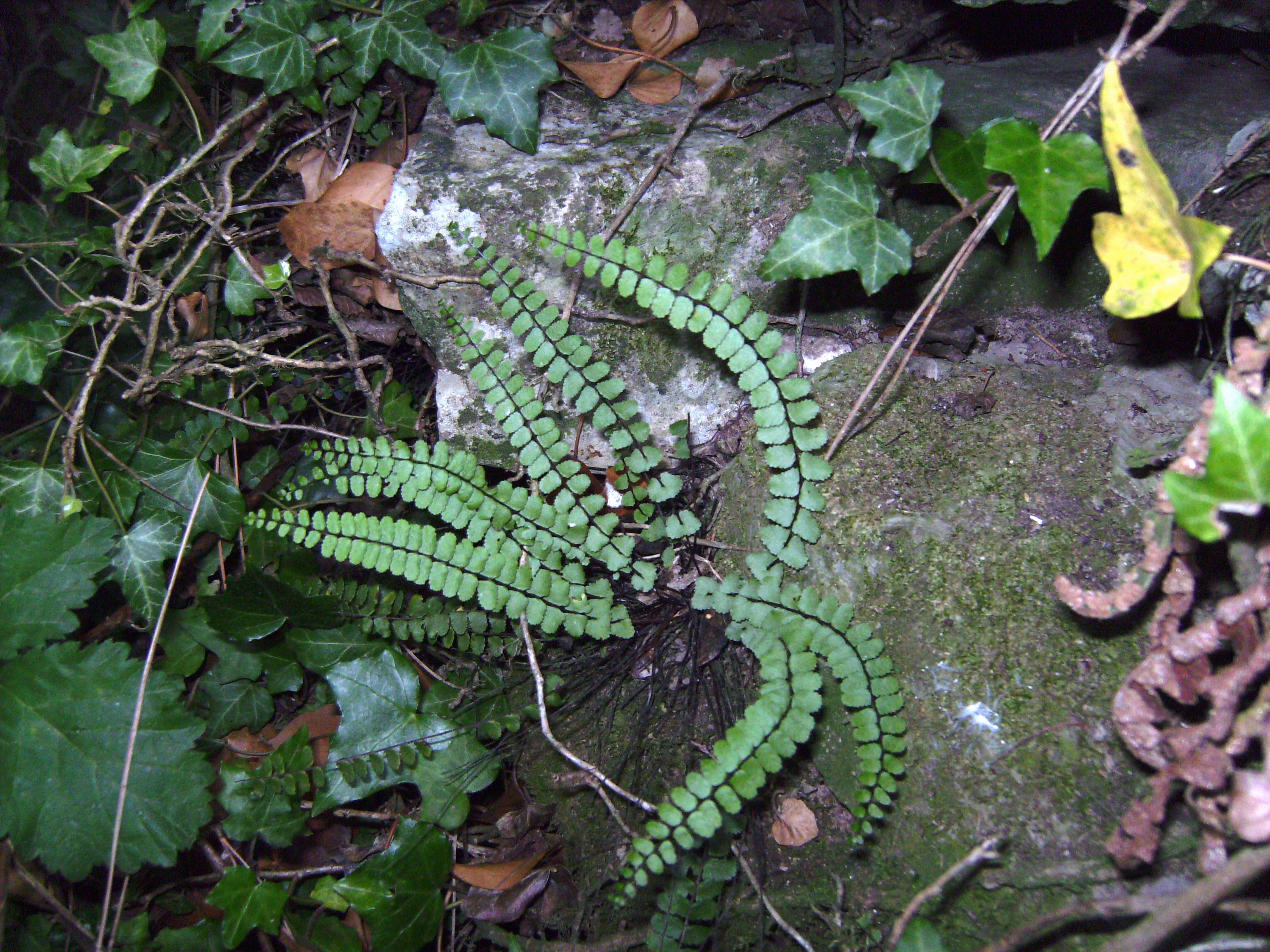 Asplenium trichomanes, Castelltallat, Catalonia